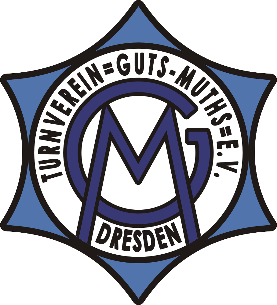 Logo of former sportclub Guts Muths Dresden (1900-1902)